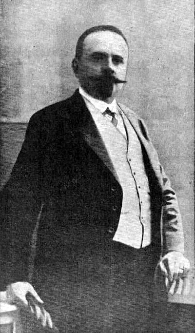 Ludwik Kuchar, Polish buissnesman, borad member and sponsor of LKS Pogoń Lwów. Father of six Kuchar brothers.